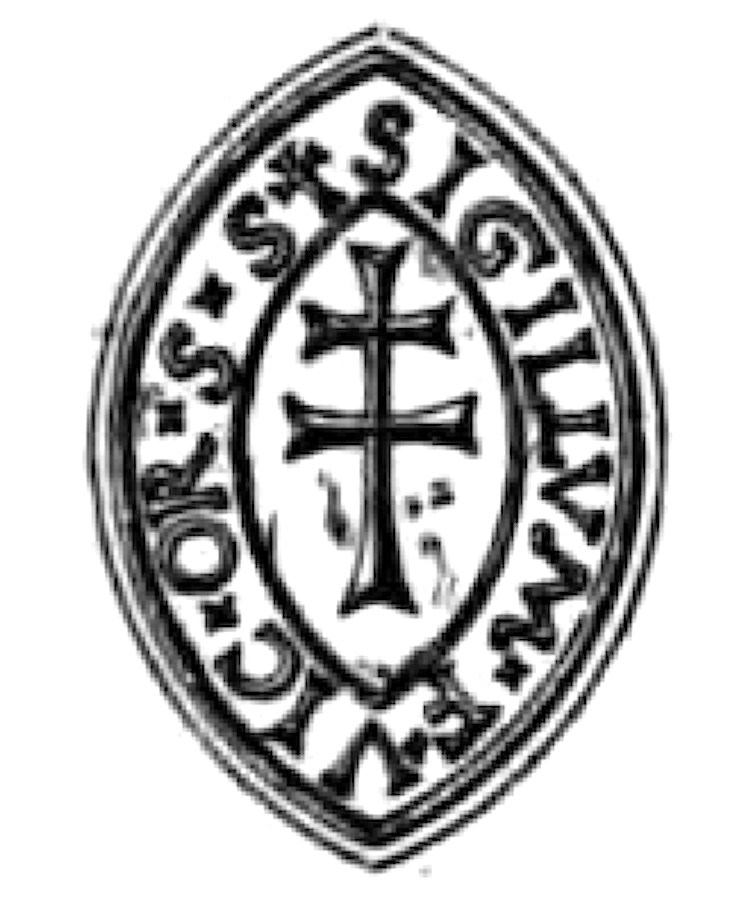 Saint Esprit